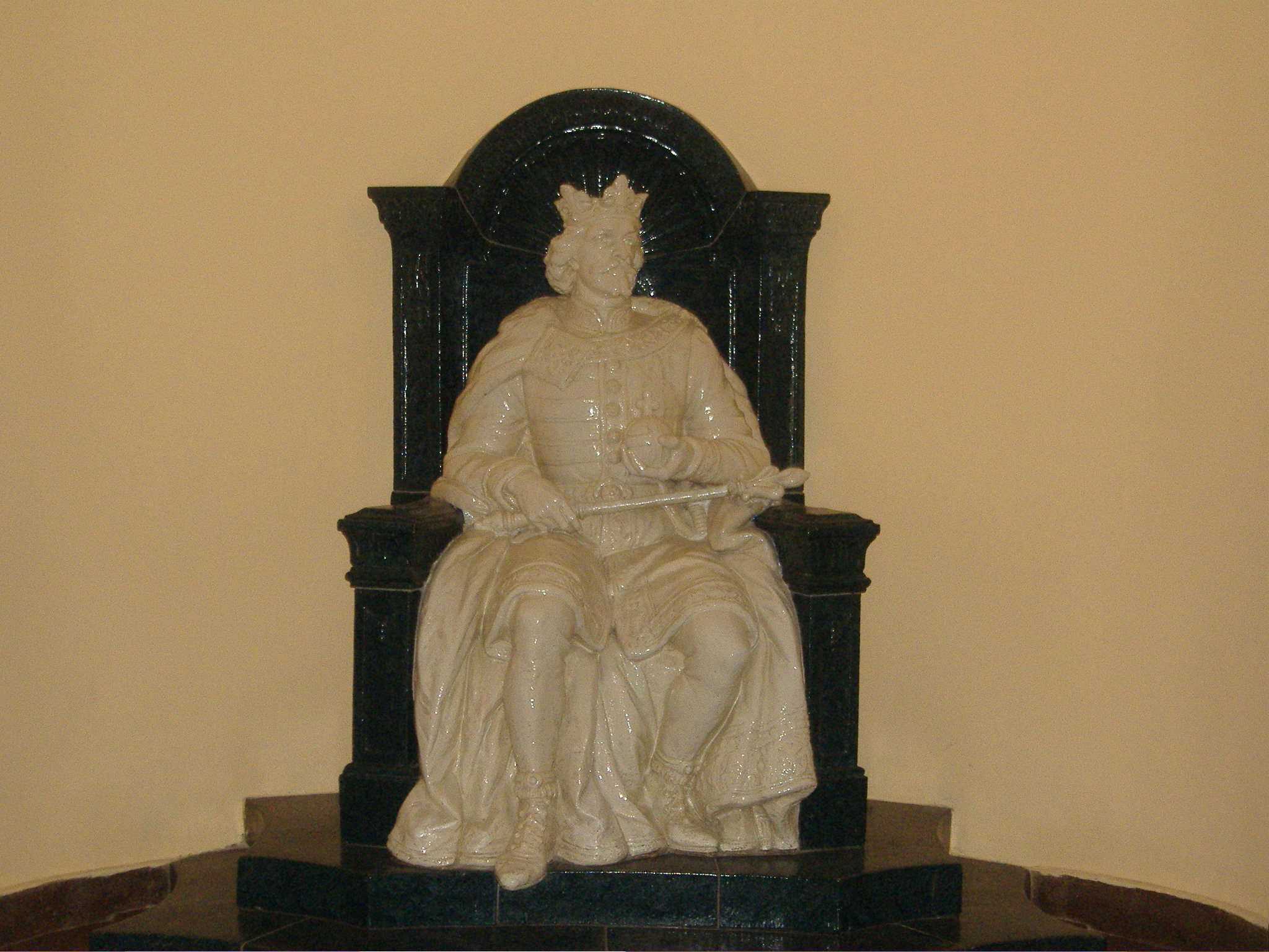 Statue of King Louis the Great in Nagy Lajos Highschool, K. Nagy Mihály (1864 – 1943), 1938